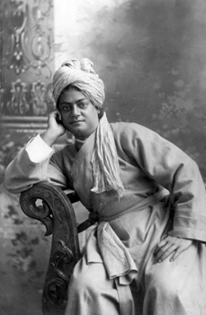 Swami Vivekananda (San Francisco), California 1900